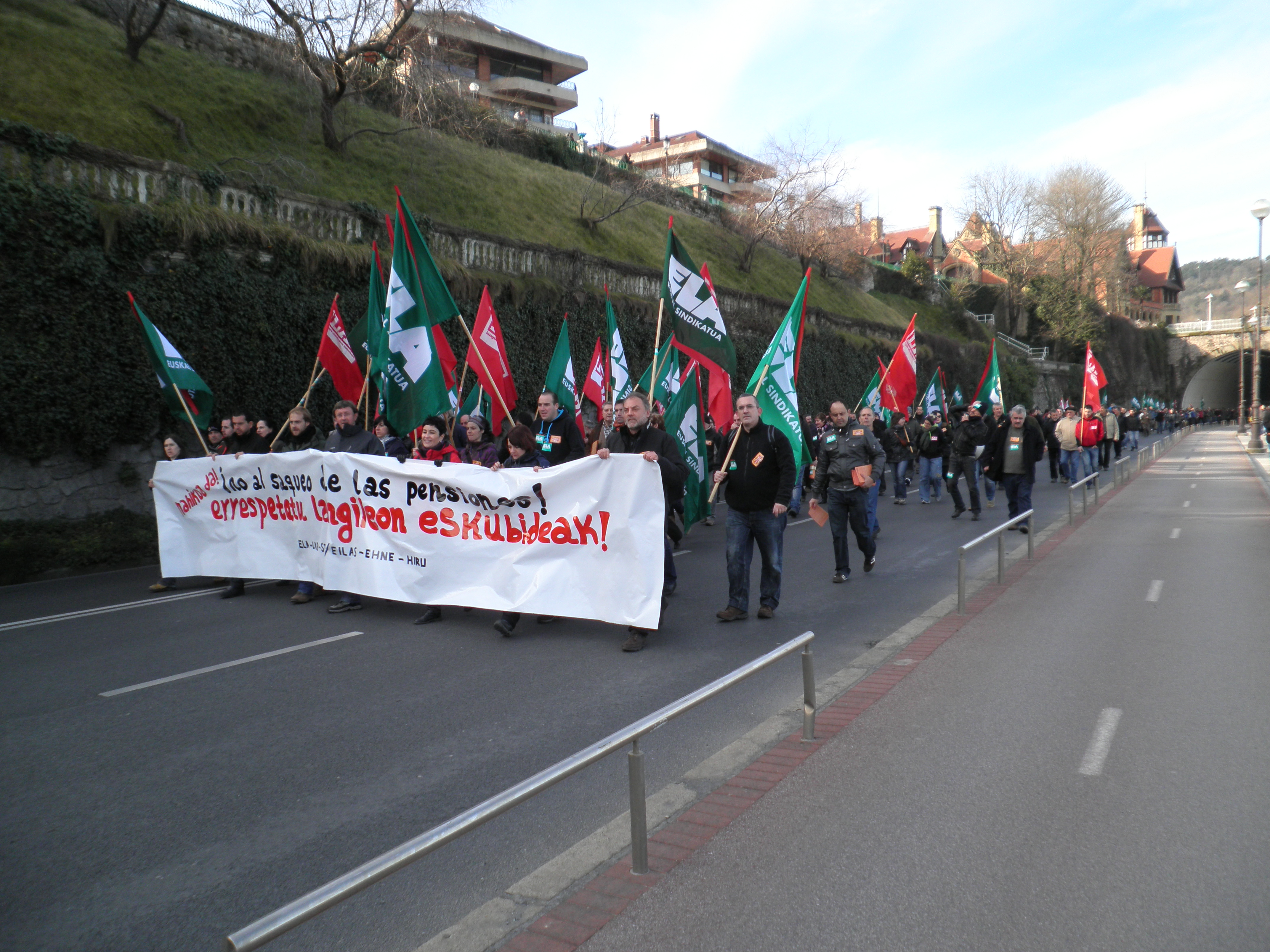 Demonstration in Donostia. General strike, 2011-01-27.